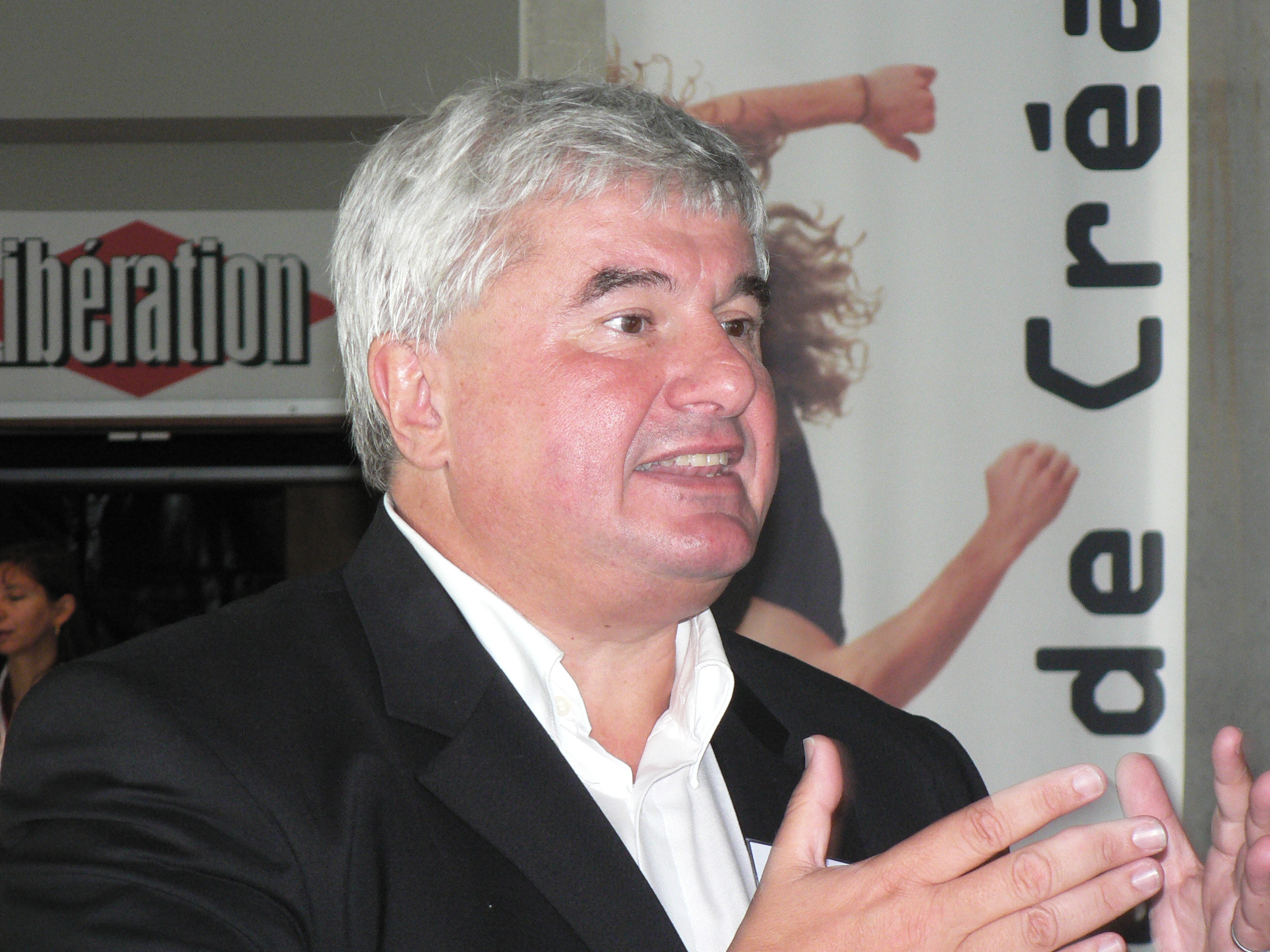 Éric Raoult during the forum Vive la politique of French daily newspaper Libération, on 15 september 2007.